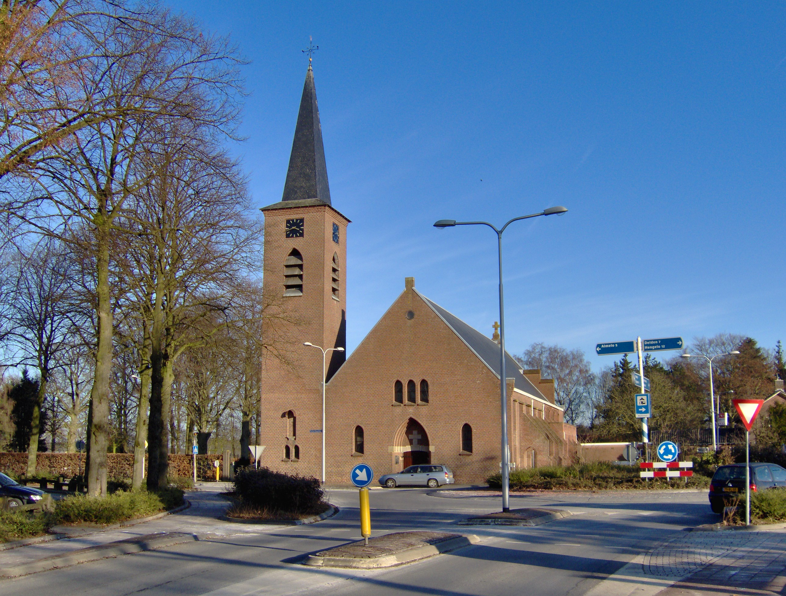 The roman catholic church Sint Stephanus in Bornerbroek, a village in the municipality of Almelo, in the province of Overijssel in the Netherlands